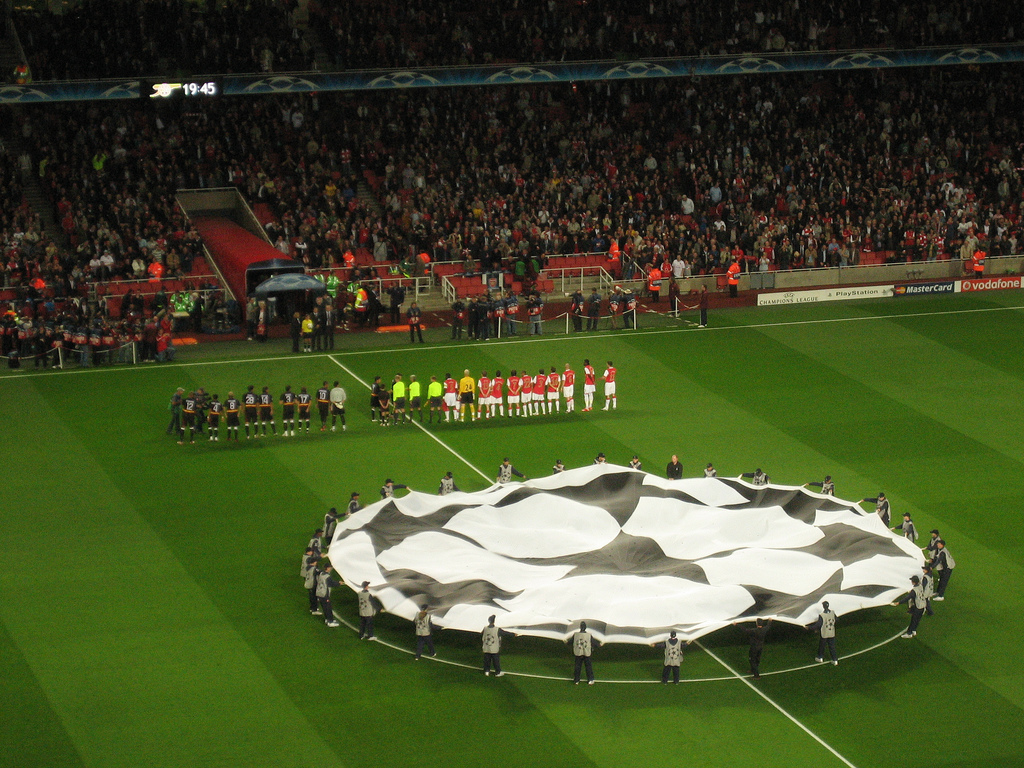 UEFA Champions League - Match Day 1 Emirates Stadium, London.Arsenal vs Sevilla